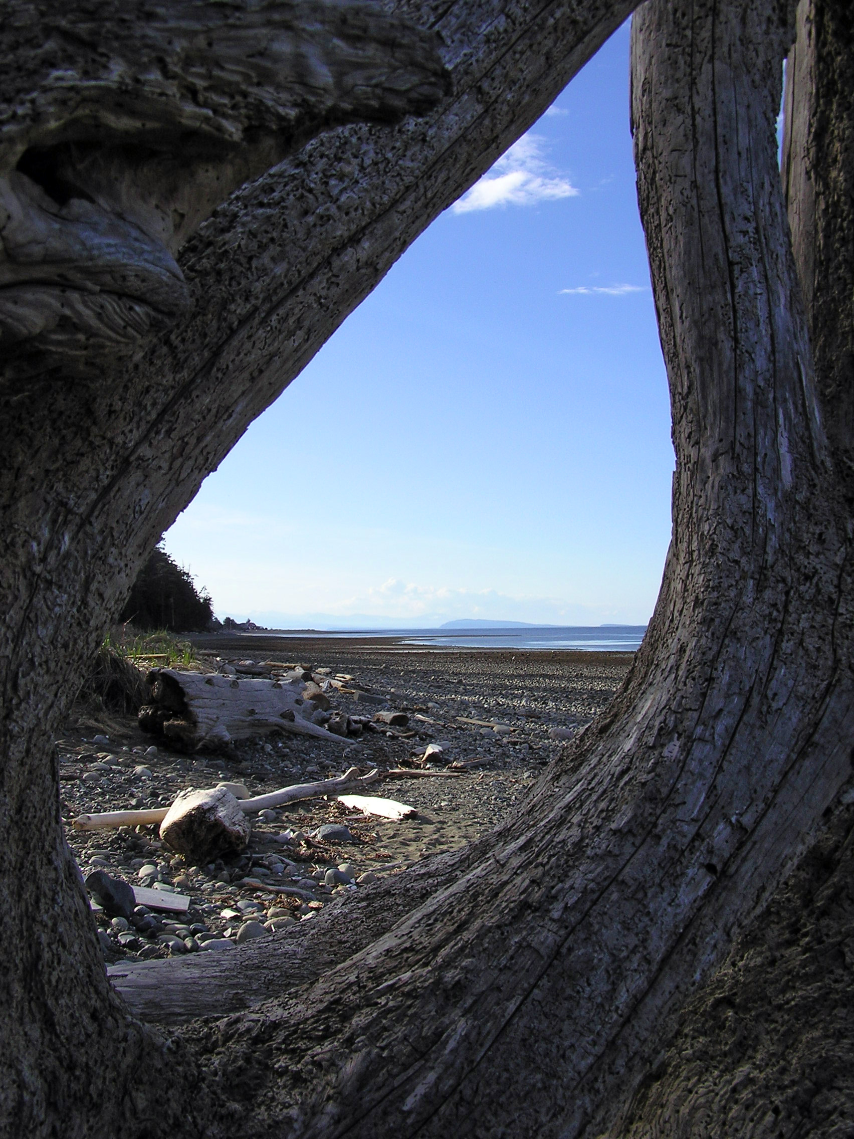 The high-water line at Rathtrevor Beach on Vancouver Island is littered with driftwood from the temperate coniferous rainforest which characterises the Pacific Northwest region.